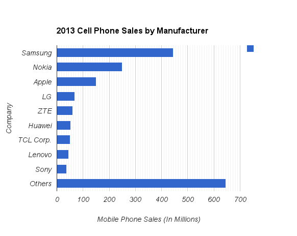 Cell phone sales of top mobile phone companies in 2013